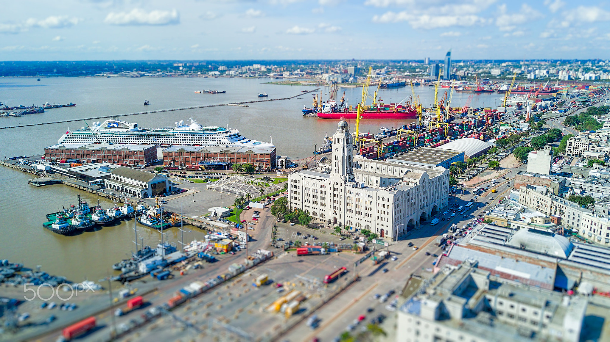 500px provided description: Puerto de Montevideo,Uruguay Video on Youtube channel : [#sky ,#city ,#sea ,#beauty ,#water ,#beach ,#travel ,#blue ,#sun ,#light ,#clouds ,#ocean ,#architecture ,#tilt-shift ,#summer ,#beautiful ,#aerial ,#green ,#sand ,#harbor ,#custom ,#puerto ,#street photography ,#armada ,#cruceros ,#aduana ,#Mavic Pro]